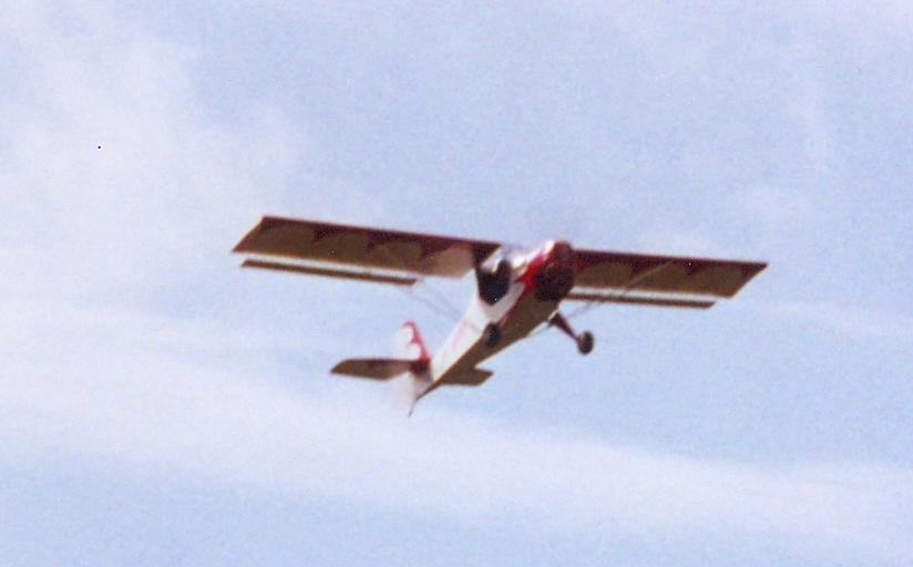 Kitfox Lite